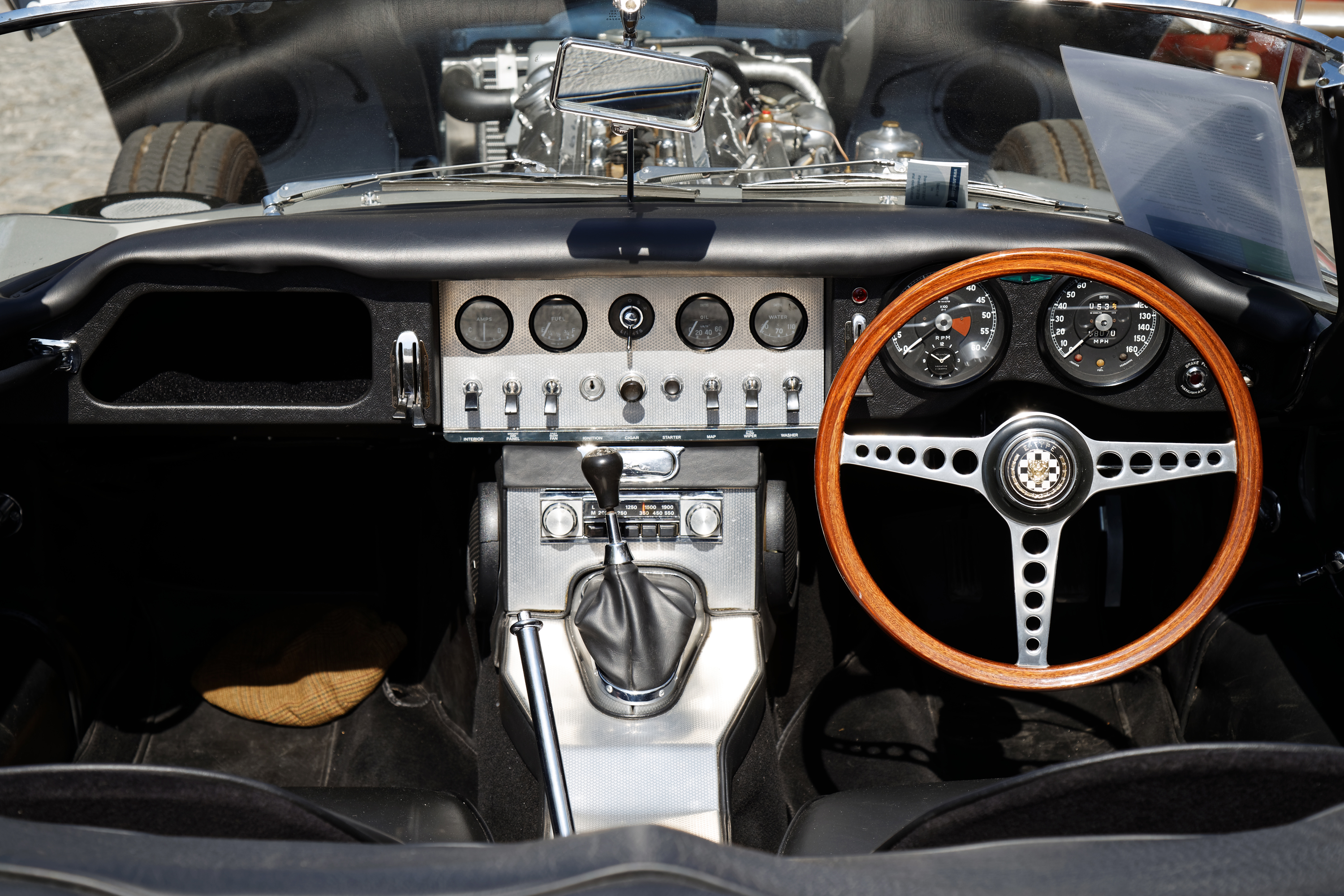 The cockpit of a Jaguar E-Type Series 1 Roadster, registered on 18 May 1962, photographed on 8 May 2016 at Horsham, West Sussex, England.Camera: Canon EOS 6D with Canon EF 24-105mm F4L IS USM lens.Software: large RAW file lens-corrected, optimized and downsized with DxO OpticsPro 10 Elite, Viewpoint 2, and Adobe Photoshop CS2.